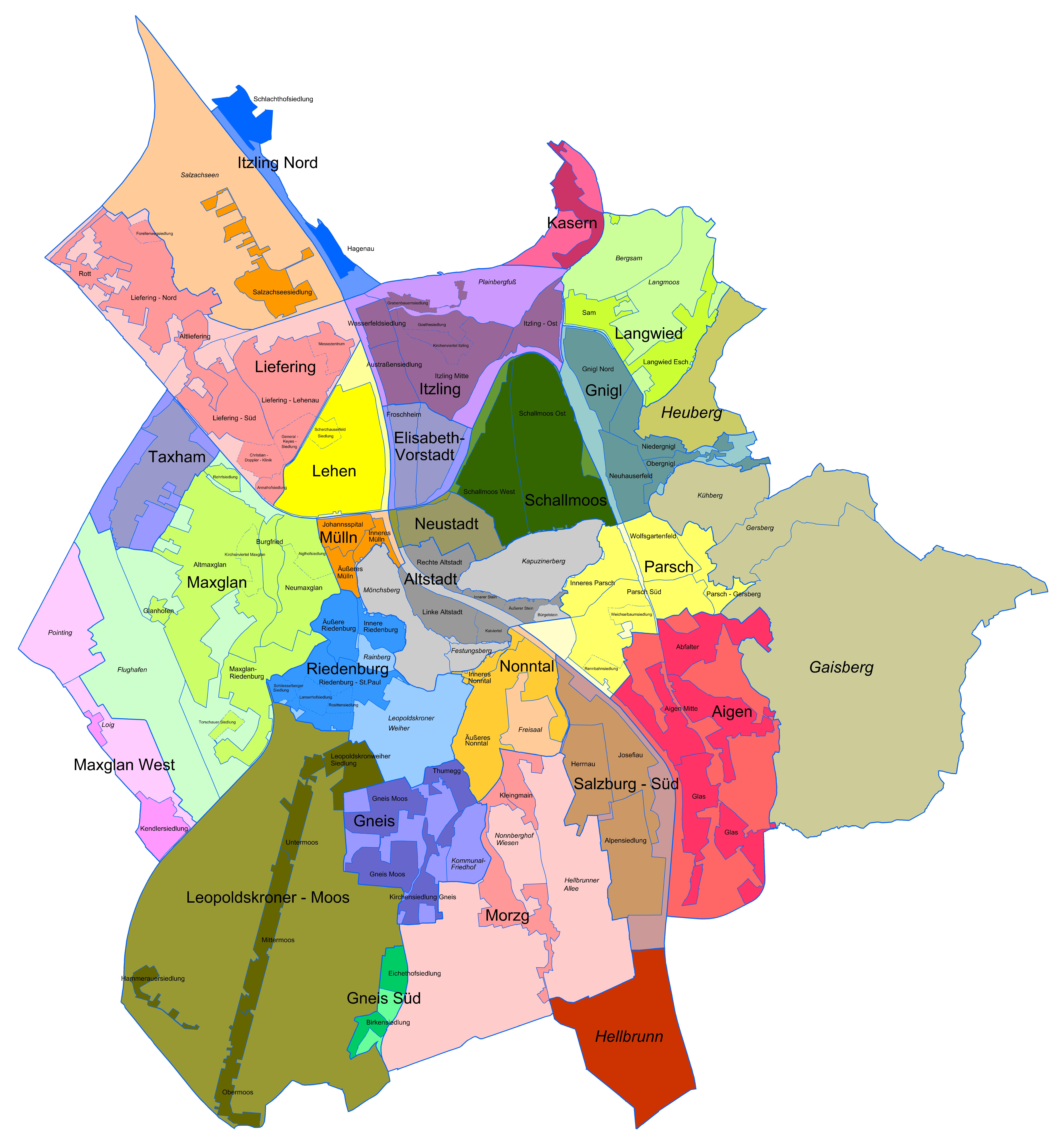 Quarters of the town of Salzburg